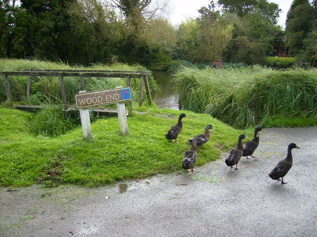 The pond with ducks at Wood End, Nash